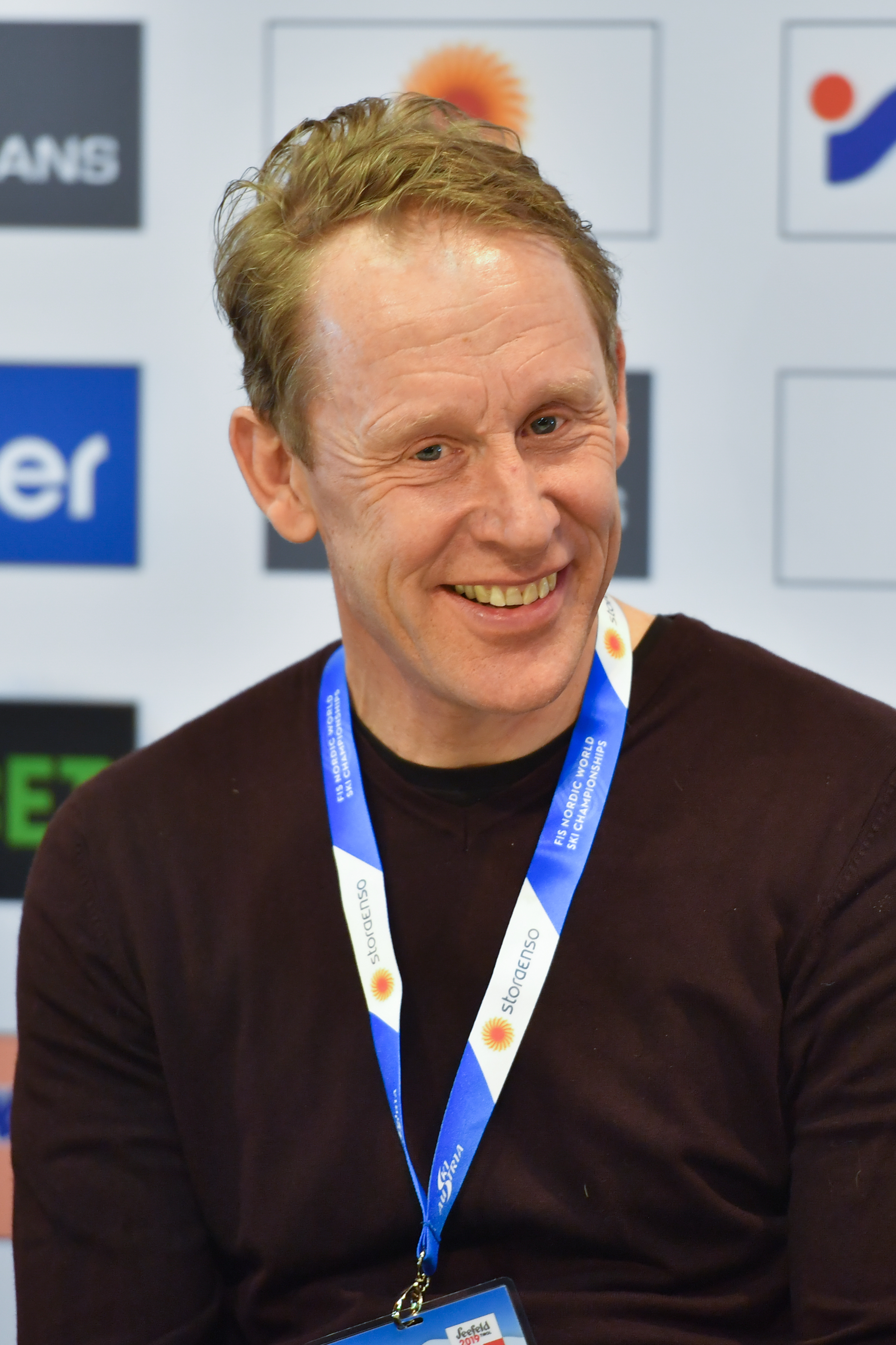 Seefeld, February 25, 2019: FIS Nordic World Ski Championships, Press Conference of Nordic Ski Legends. Image shows Gunde Svan (SWE).